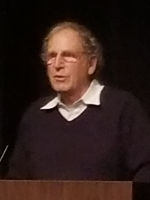 Nathaniel Dorsky at a Q&A at the Berkeley Art Museum and Pacific Film Archive in Berkeley, California, United States